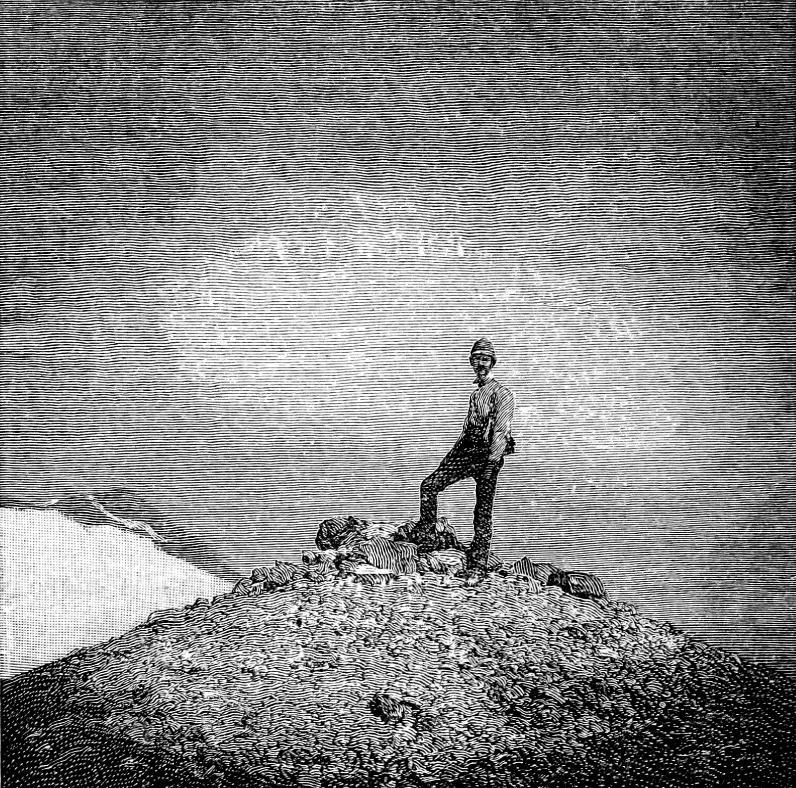 Mount St. Helens (p. 190 from scans)